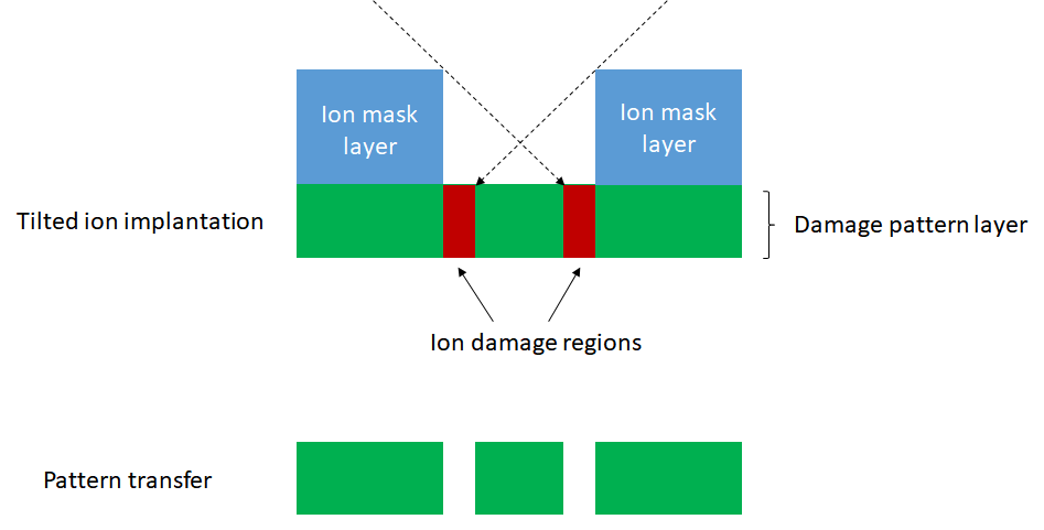 In tilted ion implantation patterning, ion damage regions serve the similar purpose as deposited spacers, but defining regions to be etched instead of remaining after etch. Ref.: S. W. Kim et al., JVST B 34, 040608 (2016).